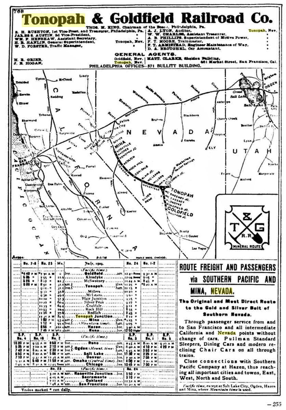 Map, logo and train schedule for the Tonopah and Goldfield Railroad. Operated from 1905 to 1947.